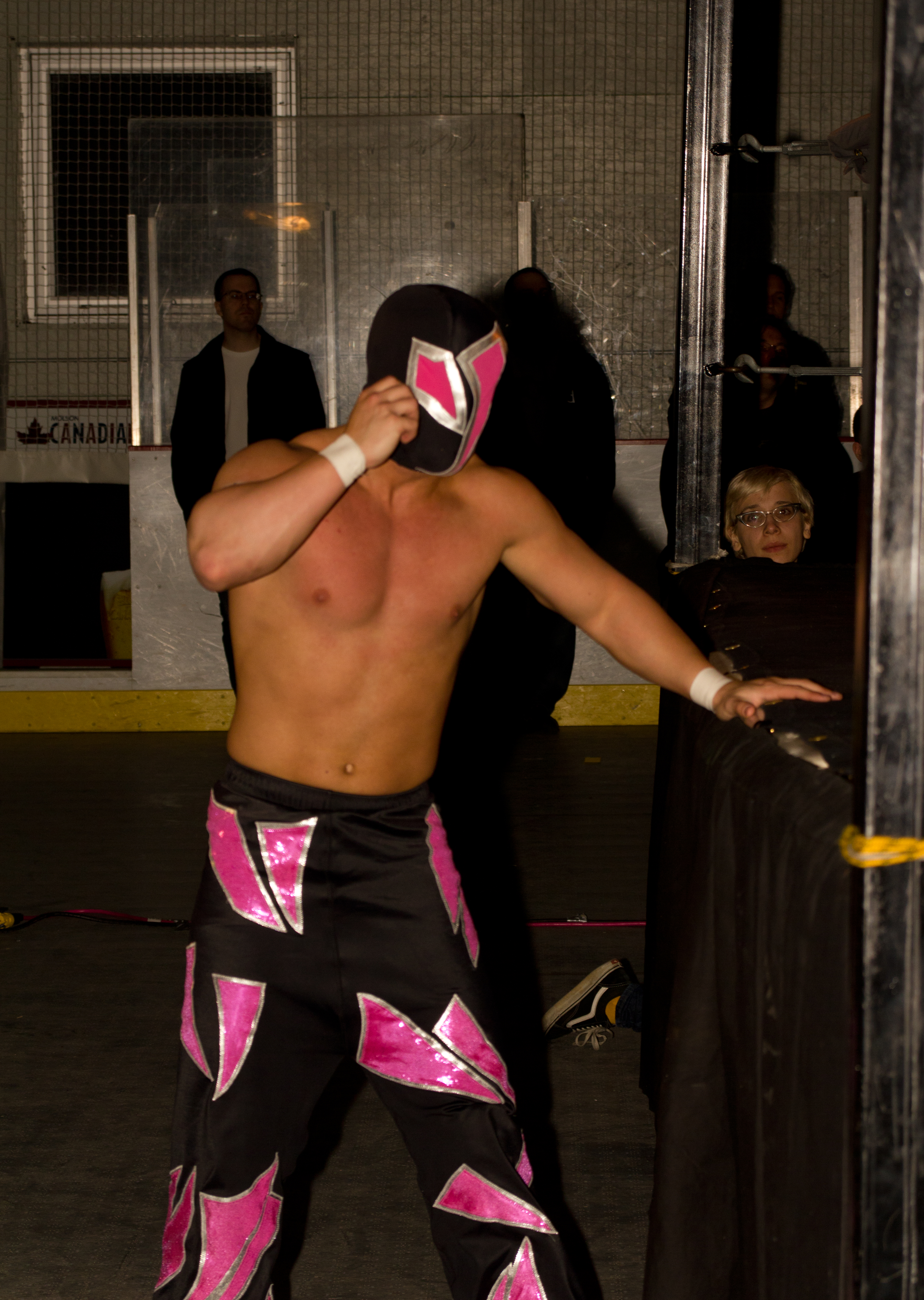 Professional wrestler The Shard at a CHIKARA event.